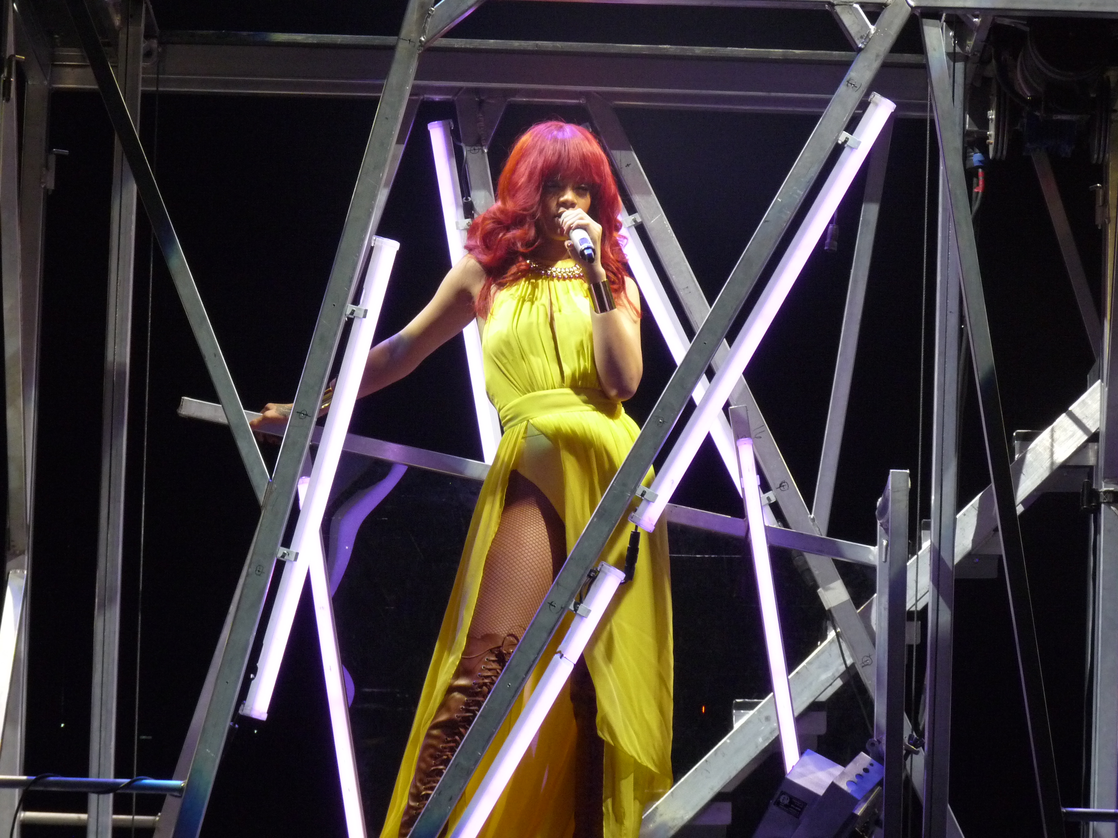 Rihanna live at Bankatlantic Center, Sunrise, Florida, on her tour The LOUD Tour. 14th July 2011